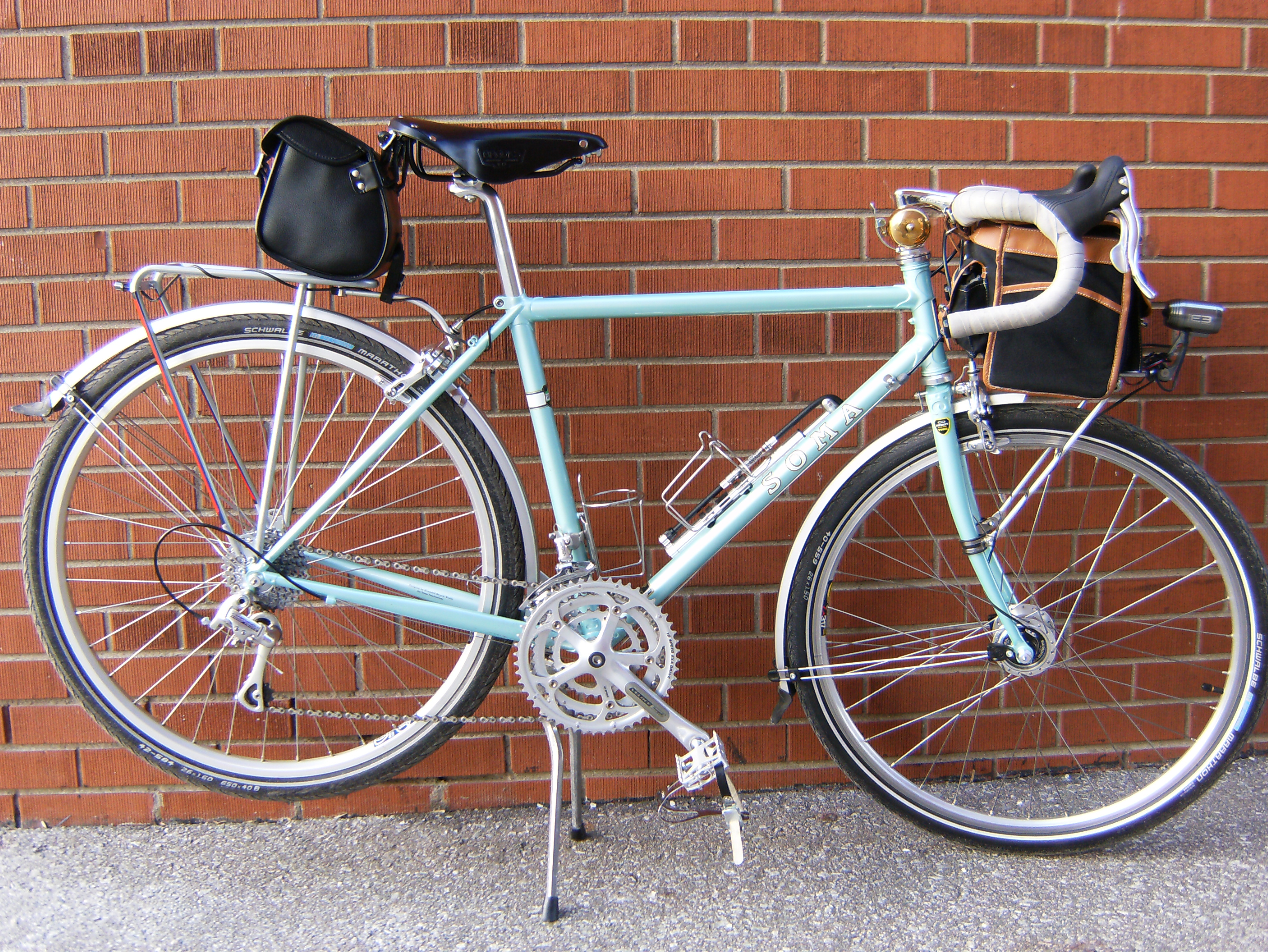 A bicycle configured for light touring purposes. Note front and rear racks, frame-mounted pump, two water bottle cages and dynamo powered lights.